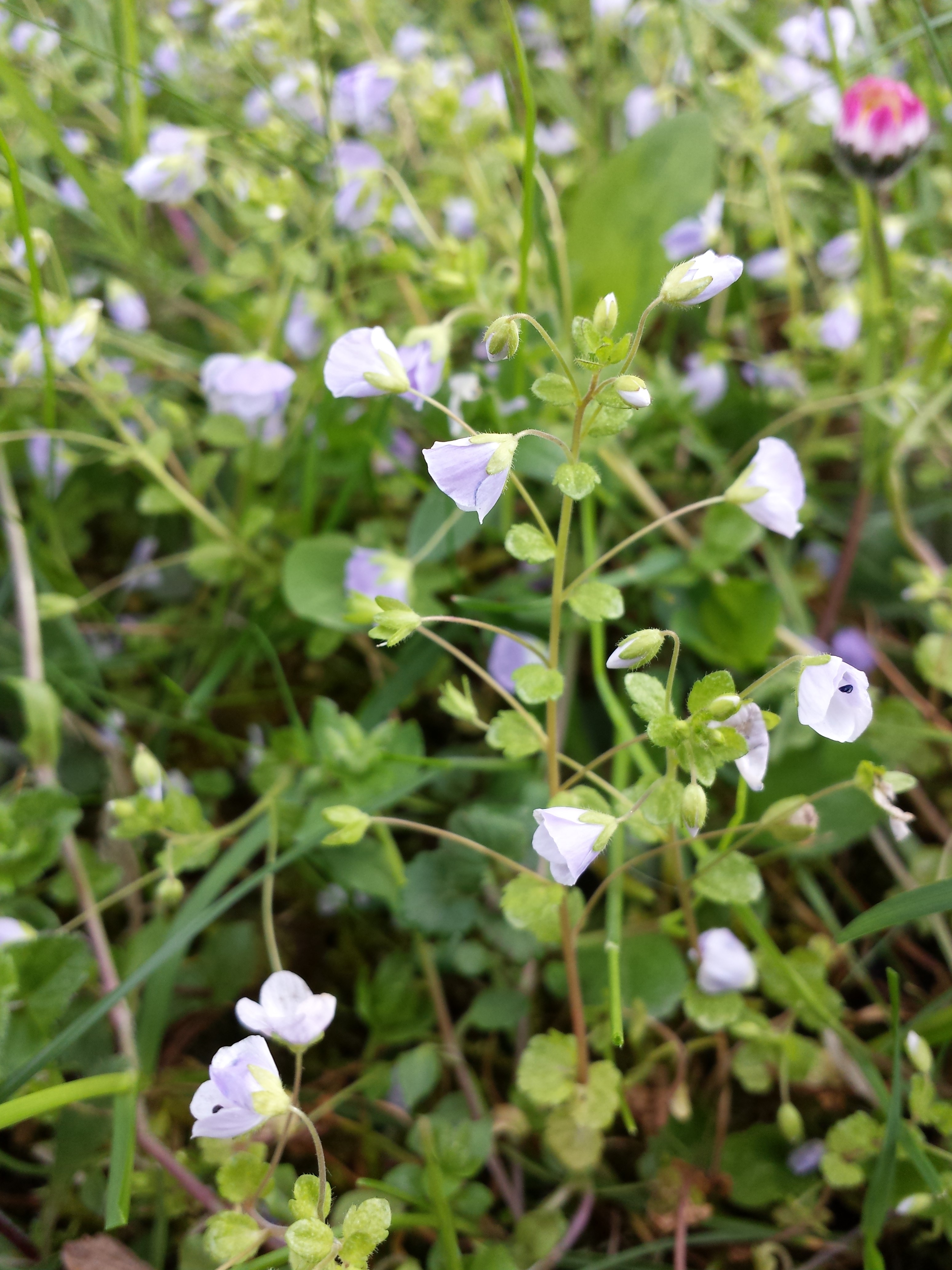 Inflorescence/Infructescence Taxonym: Veronica filiformis ss Fischer et al. EfÖLS 2008 ISBN 978-3-85474-187-9 Location: Unterschleißheim, district München, Bavaria, Germany - ca. 473 m a.s.l. Habitat: ruderal meadows